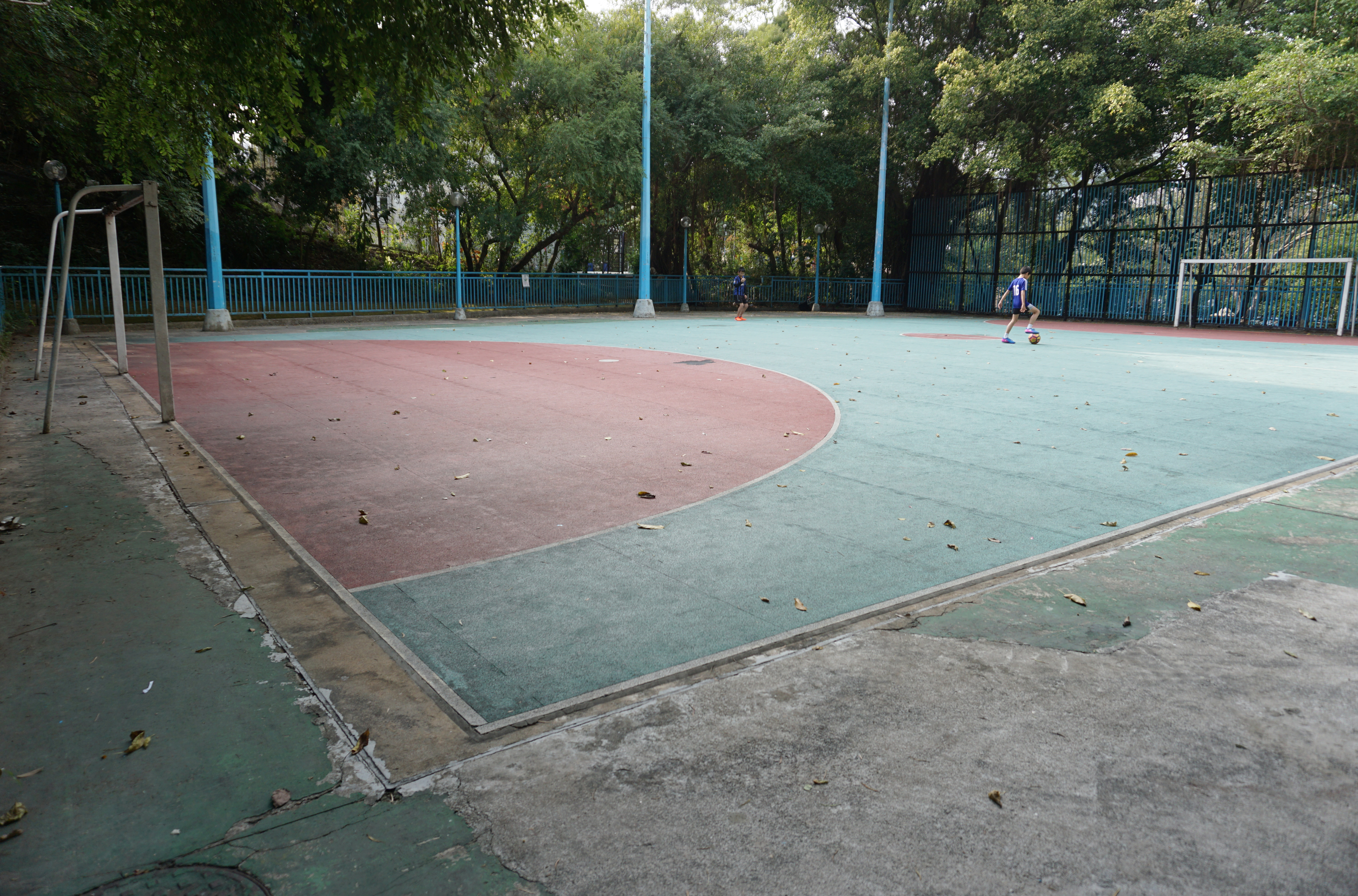 Pok Hong Estate in Sha Tin Wai, Hong Kong.